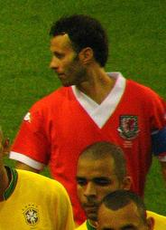 Giggs playing for Wales in a friendly against Brazil